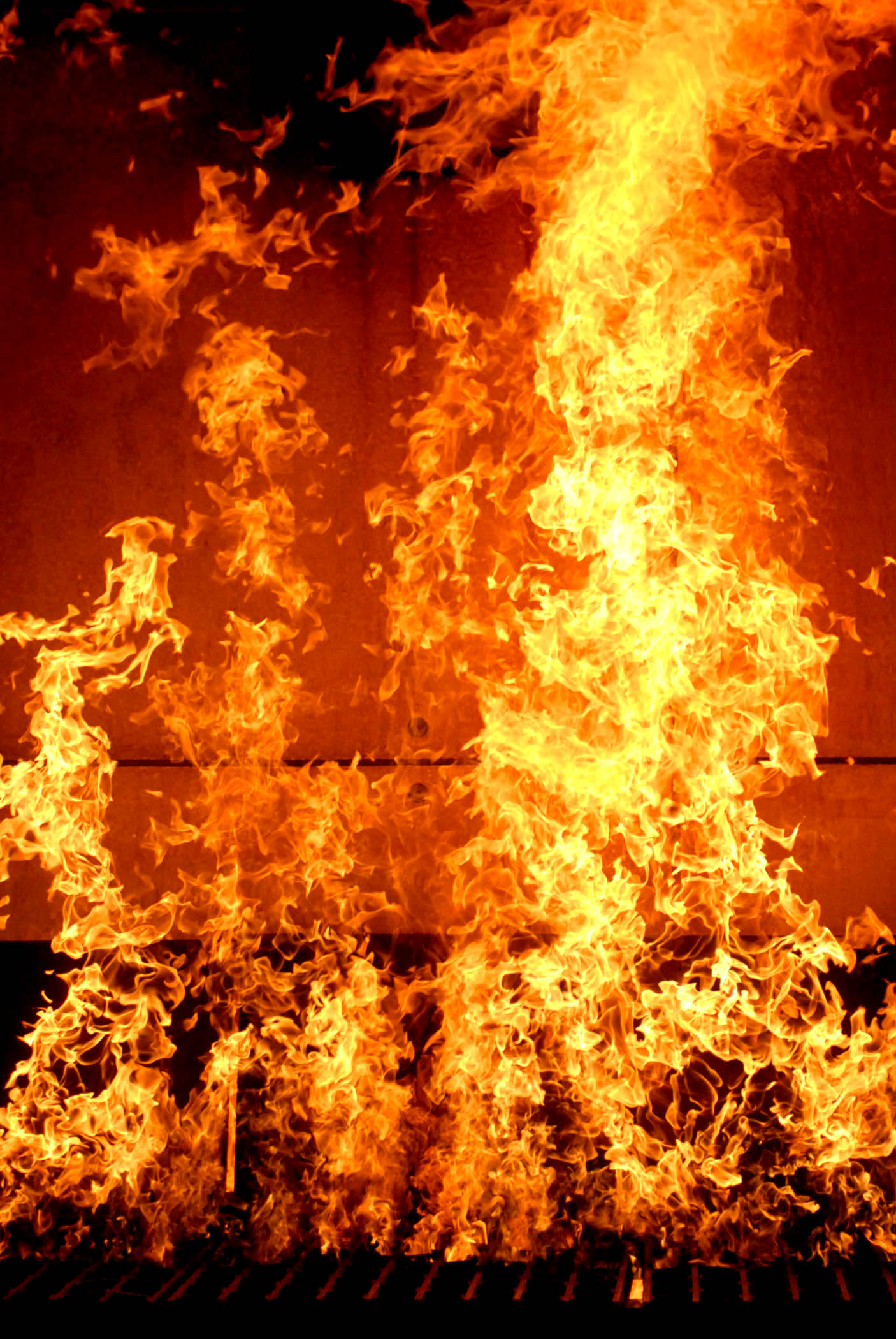 The fire inside the burn house grows in strength and begins to climb the walls during the training exercise, Oct. 29, 2008. During the excercise, soldier firefighters assigned 20th Engineer Brigade's 513th Fire Fighting Detachment will focus suppressing a fire that has moved to the ceiling and is rapidly moving through the house.